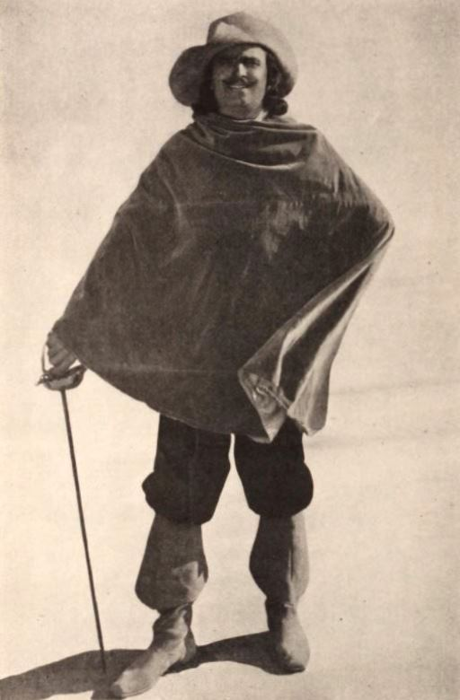 Still from the American film The Three Musketeers (1921) with Douglas Fairbanks, on page 76 of the April 16, 1921 Exhibitors Herald.